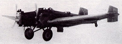 Mitsubishi Ki-1 twin engine heavy bomber